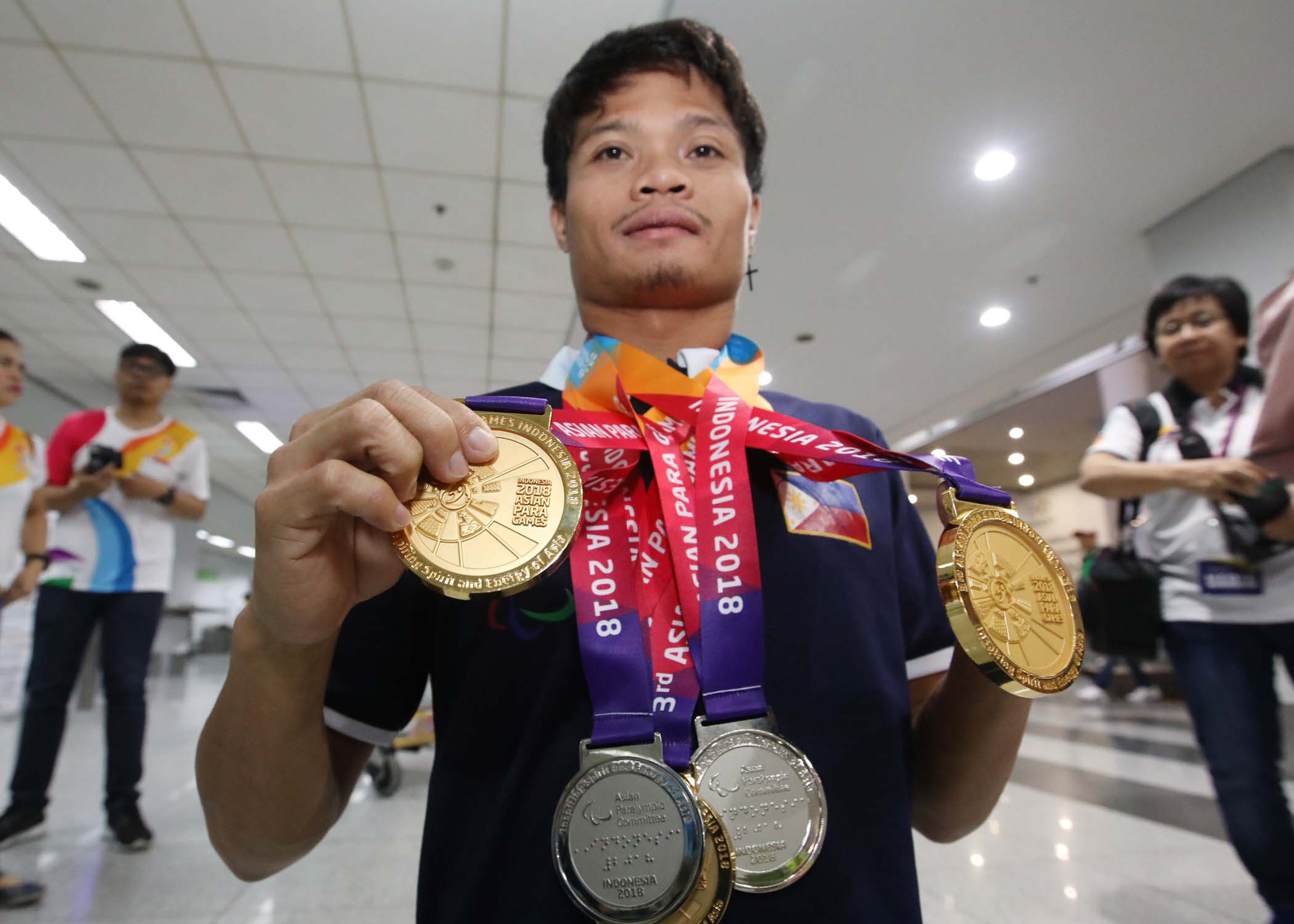 Swimmer Ernie Gawilan presents his two gold and three silvers medals from the 3rd Para Asian Games held in Jakarta, Indonesia, shortly upon his arrival at the Ninoy Aquino International Airport Terminal 3 in Pasay City on Sunday (October 14, 2018)